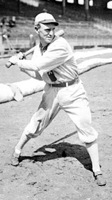 Walt "Red" Kuhn as a member of the Chicago White Sox posing in his batting stance.